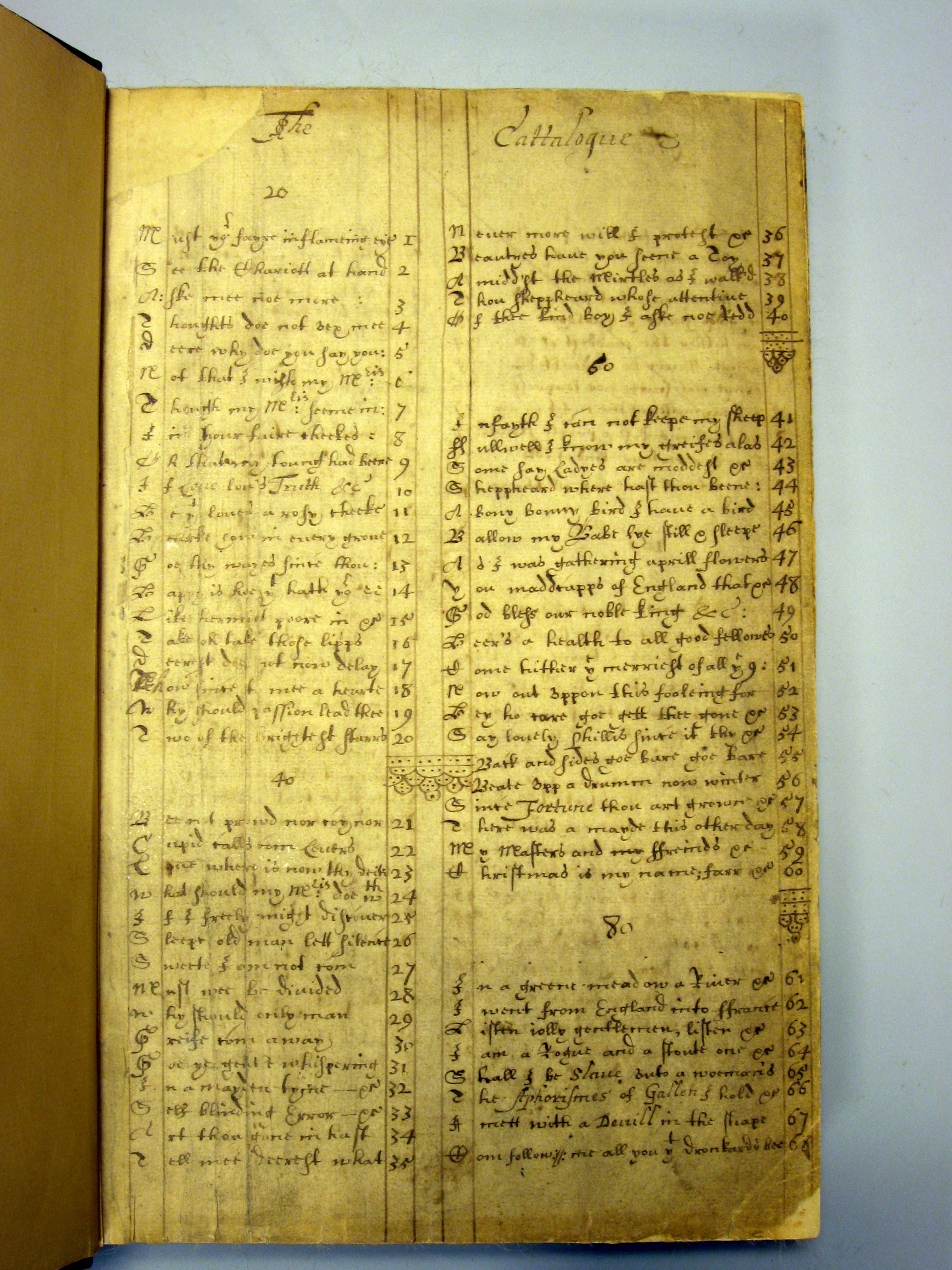 Drexel 4257, folder 3r - the beginning of the table of contents, labeled "The Cattalogue"